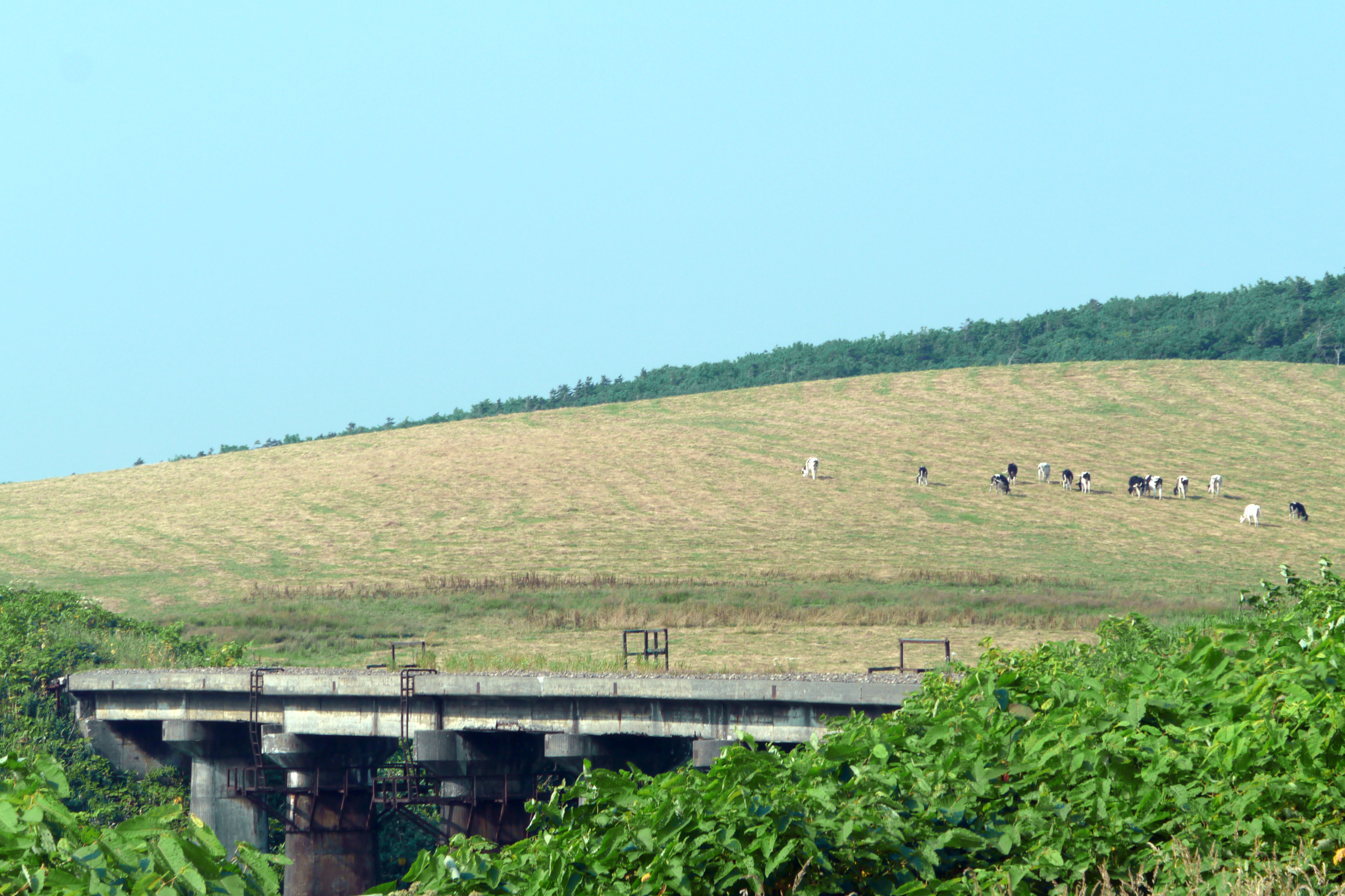 A bridge of the former Haboro Line in Hokkaido, Japan